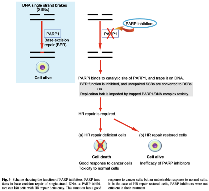 PARP inhibitors